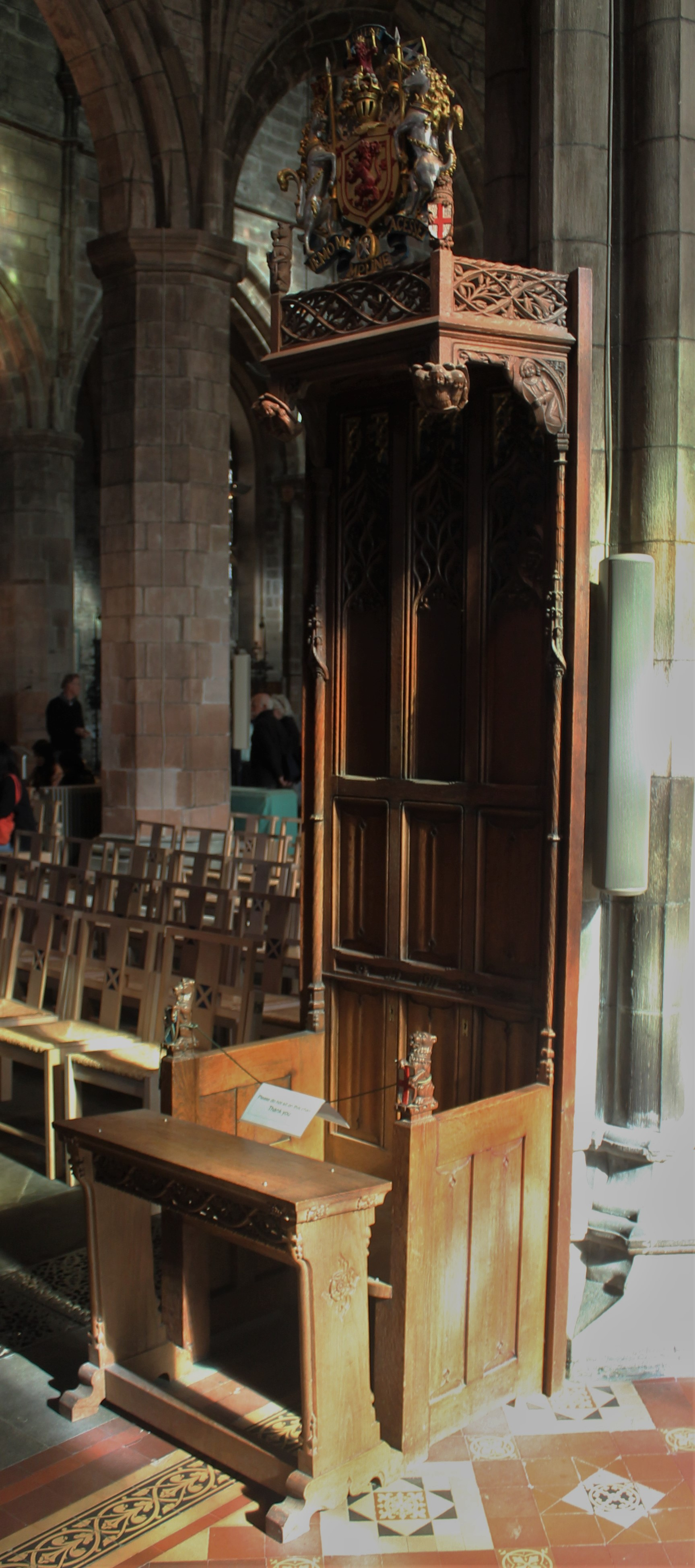 The royal pew in St Giles' Cathedral, Edinburgh, created in 1953 by Esme Gordon using elements of the older royal pew.